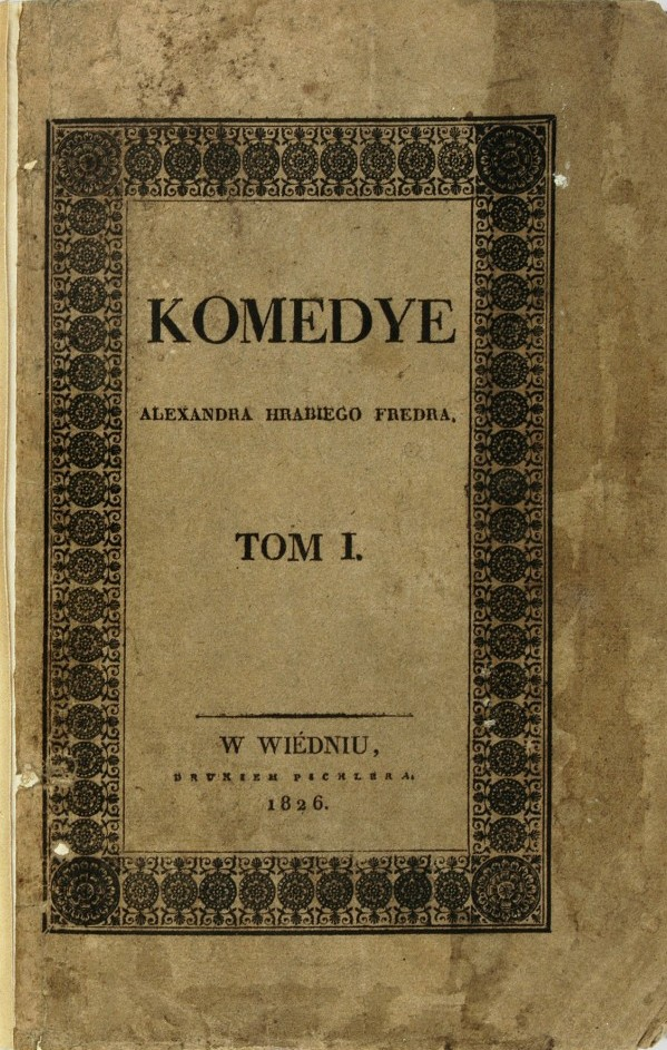 dramaty